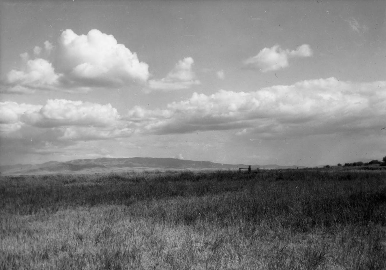 Marker at the site of the first Fort Hall (1834-1856).